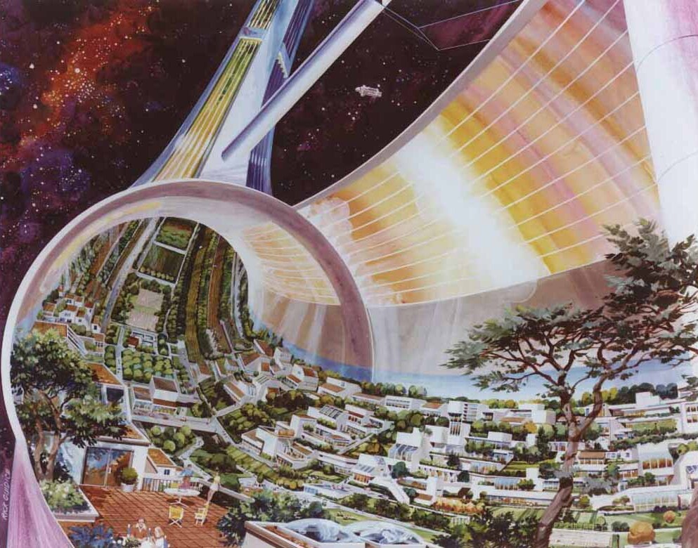 Stanford Torus Cutaway view, exposing the interior